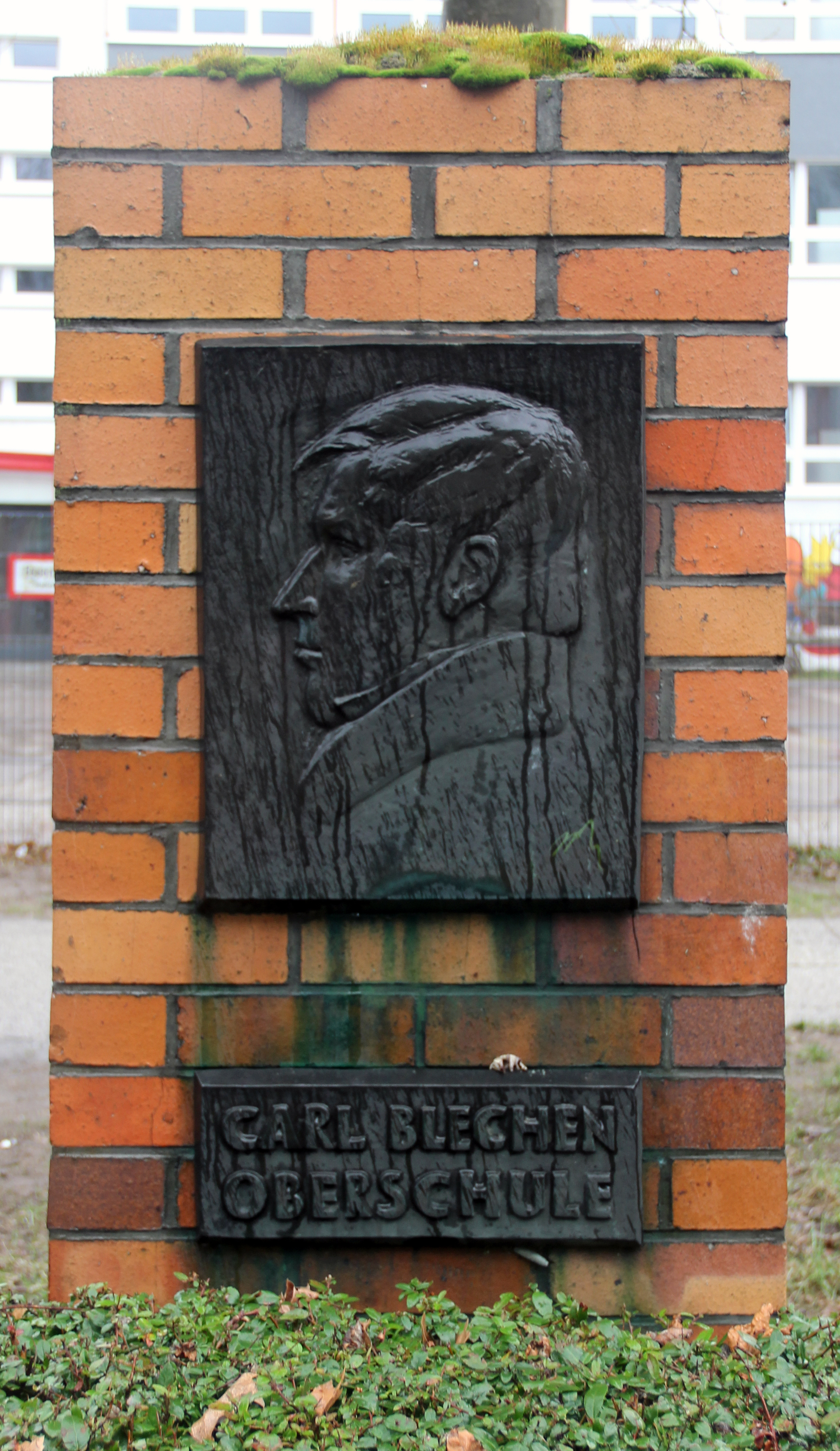 Memorial plaque, Carl Blechen, Cottbusser Straße 23, Berlin-Hellersdorf, Deutschland